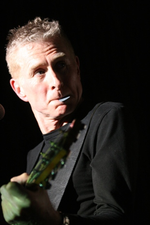 Andy Revell, 2008